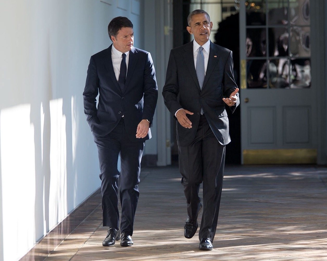 Barack Obama with Matteo Renzi in October 2016.